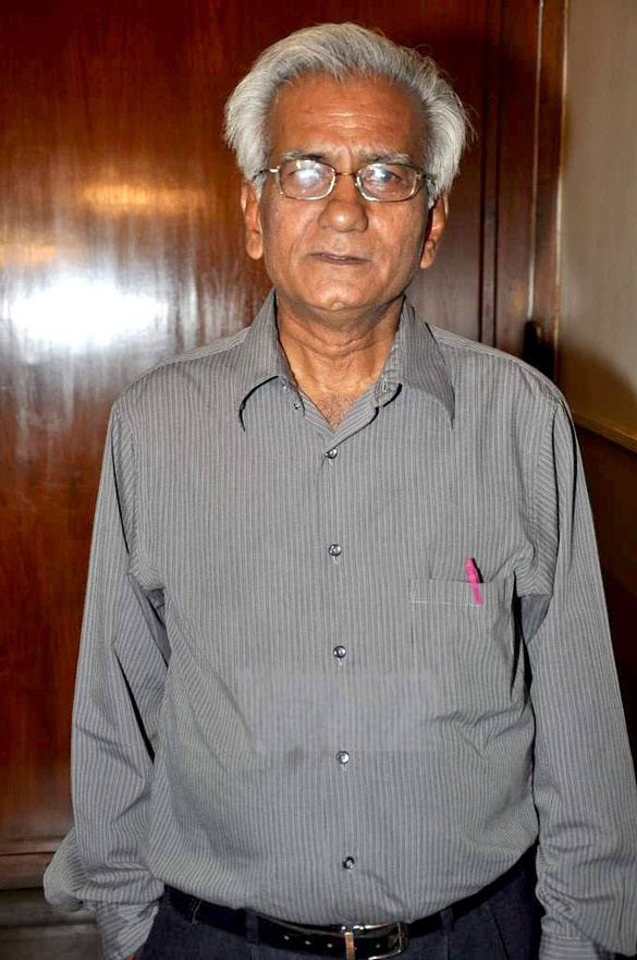 Kundan Shah at special screening of ‘Jaane Bhi Do Yaaro’